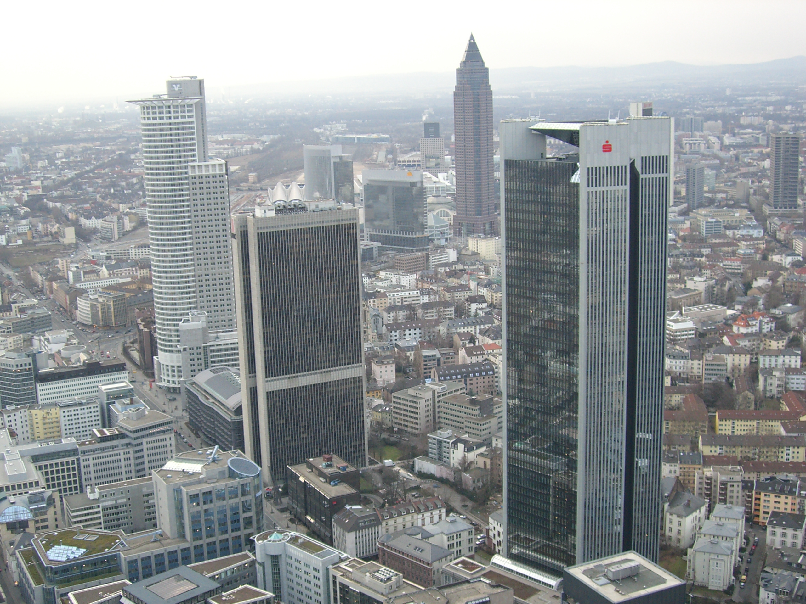 Frankfurt, Germany